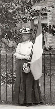 Whitstable suffragettes - Unknown man, Miss Barry, Rose Lamantine Yates and Gertrude Wilkinson on 1909-08-27 Licensing This image (or other media file) is in the public domain because its copyright has expired and its author is anonymous. This applies to the European Union and those countries with a copyright term of 70 years after the work was made available to the public and the author never disclosed their identity. Important: Always mention where the image comes from, as far as possible, and make sure the author never claimed authorship. Note: In Germany and possibly other countries, certain anonymous works published before July 1, 1995 are copyrighted until 70 years after the death of the author. See Übergangsrecht. Please use this template only if the author never claimed authorship or their authorship never became public in any other way. If the work is anonymous or pseudonymous (e.g., published only under a corporate or organization's name), use this template for images published more than 70 years ago. For a work made available to the public in the United Kingdom, please use Template:PD-UK-unknown instead.